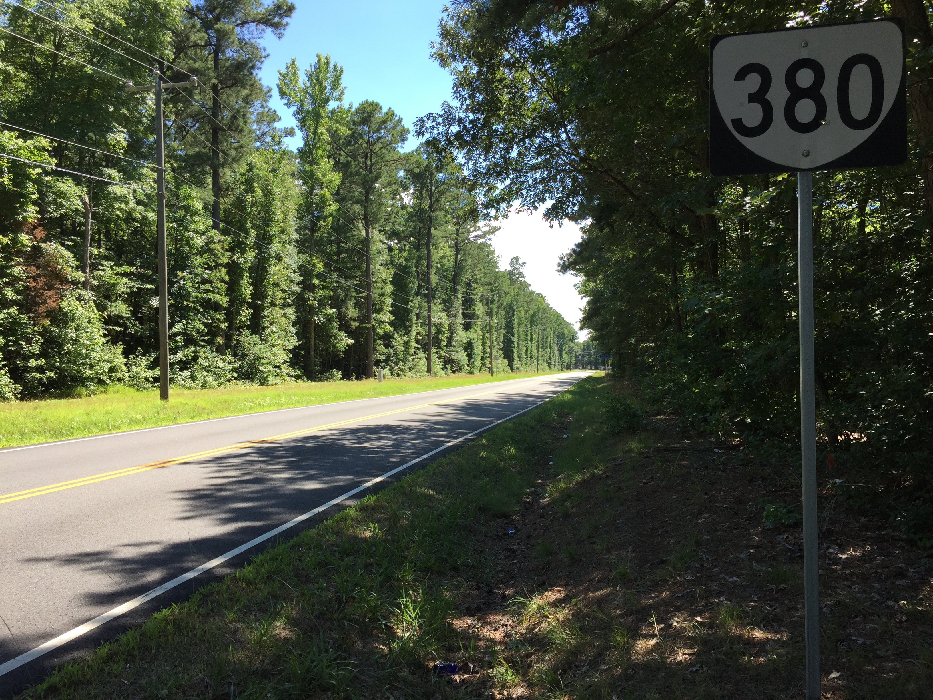 View south along Virginia State Route 380 (Elko Tract Road) at Virginia State Route 156 (Elko Road) in Currituck Farms, Henrico County, Virginia